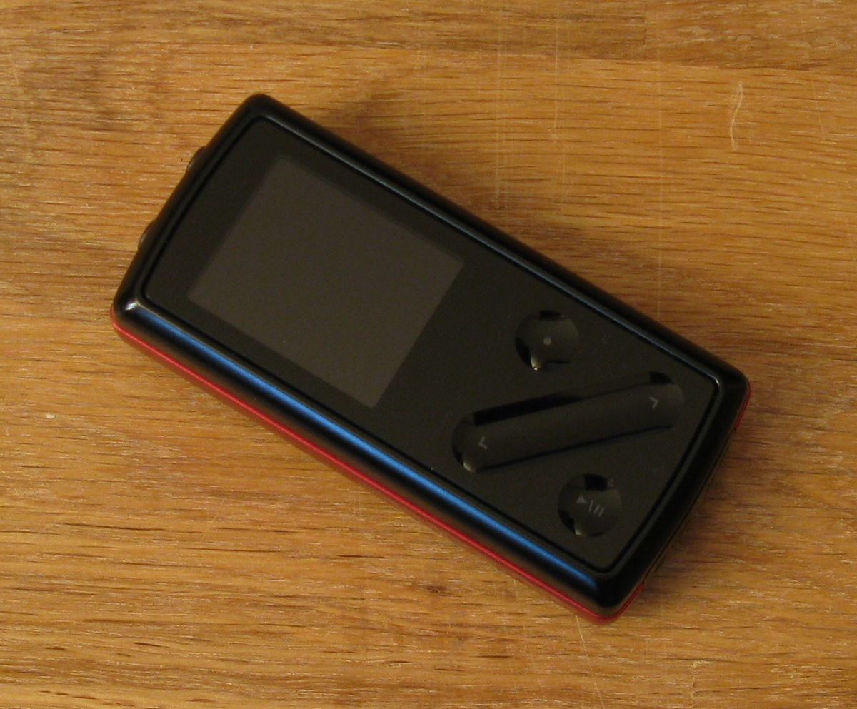 Cowon iAUDIO 7 Digital Multimedia Player.